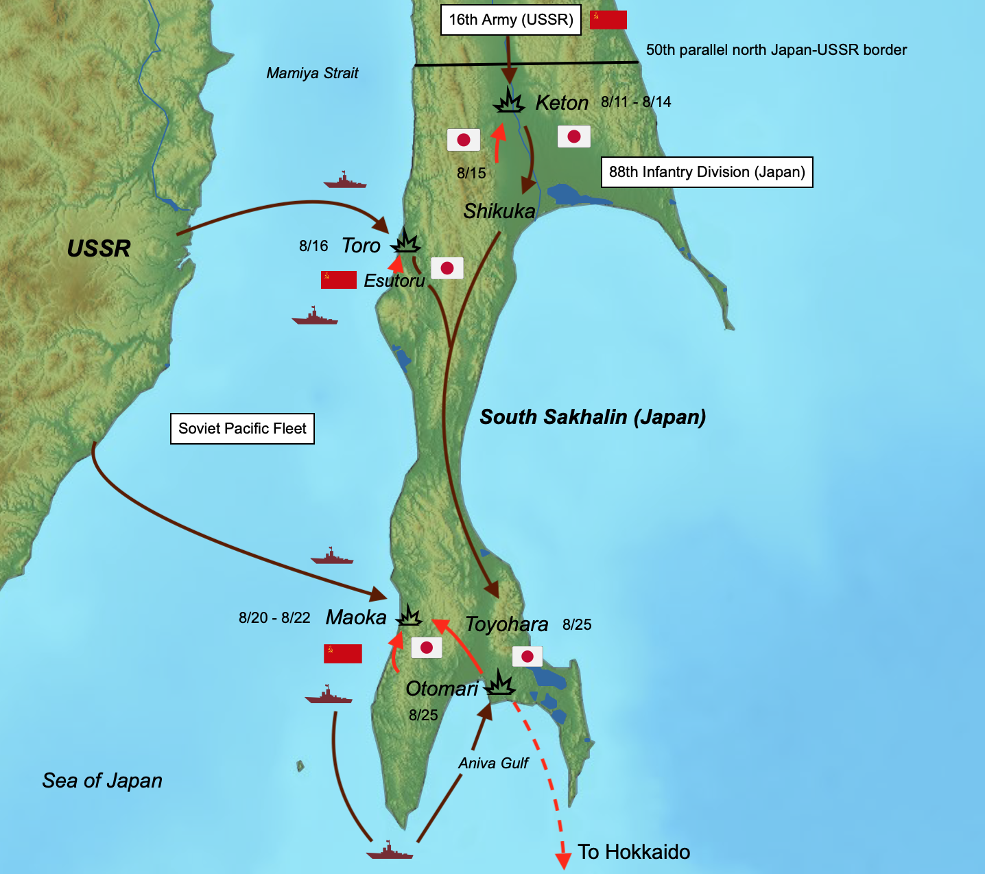 Map detailing Soviet invasion of Japanese South Sakhalin/Karafuto in August of 1945.